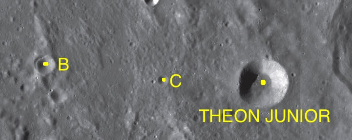 Part of the chart LAC-78 used for the presentation.